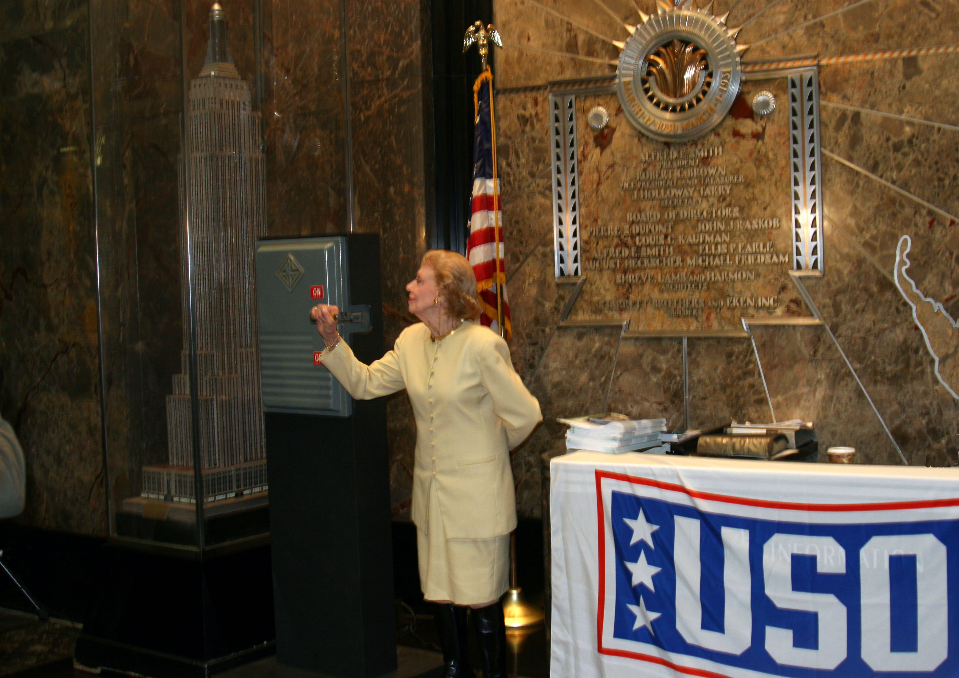 Actress, Joyce Randolph, better known as �Trixie� from the original cast of The Honeymooners show, flips the switch to light The Empire State Building with the colors of the USO